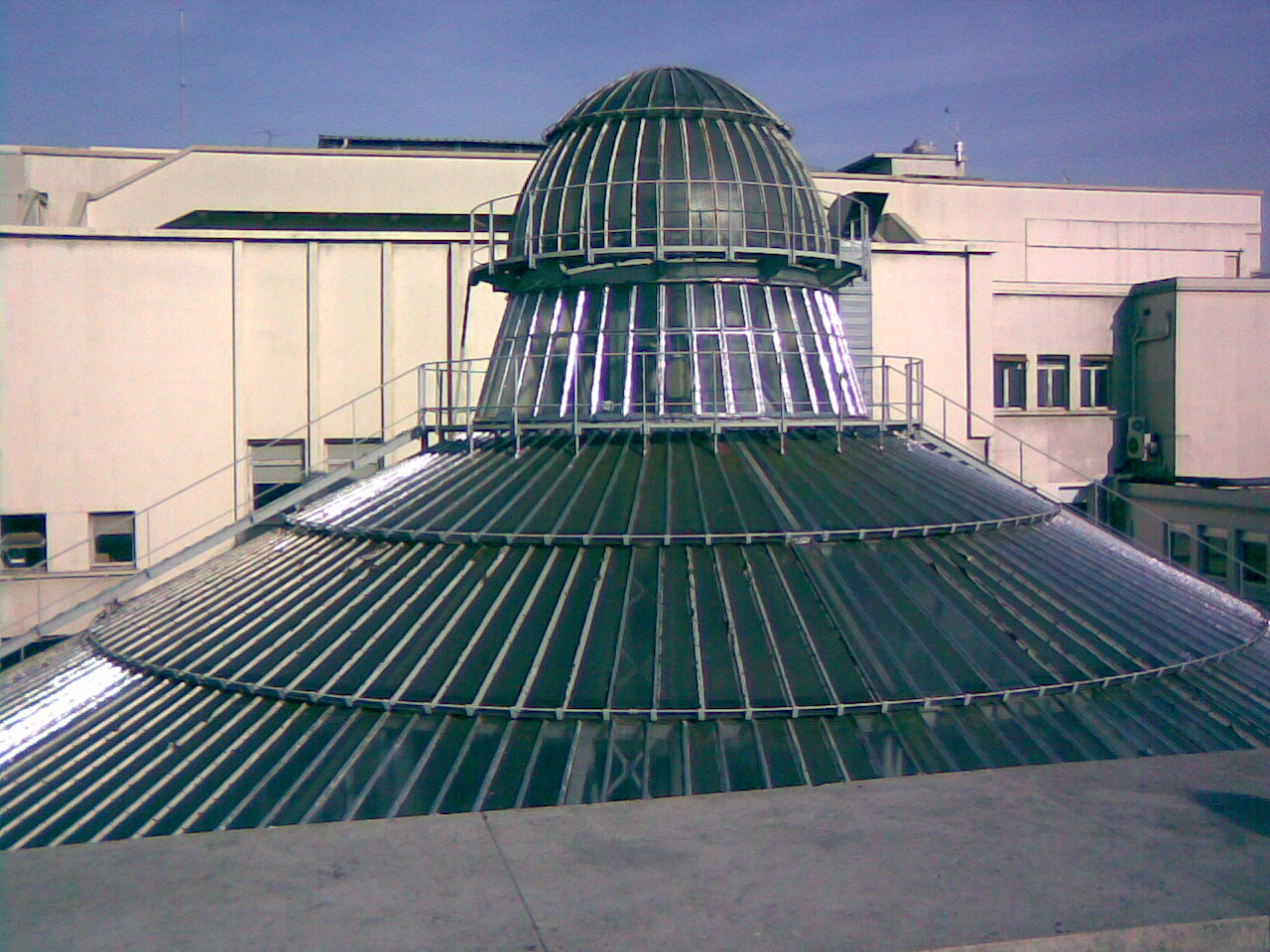 Dome of the hall in the Lafayette in Paris